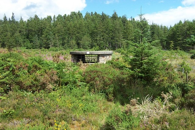 Mineshaft near Bwlch yr Haiarn. This disused mineshaft close to an unnamed reservoir West of Llyn Sarnau near Bwlch yr Haiarn is at grid reference SH 77410 59030.